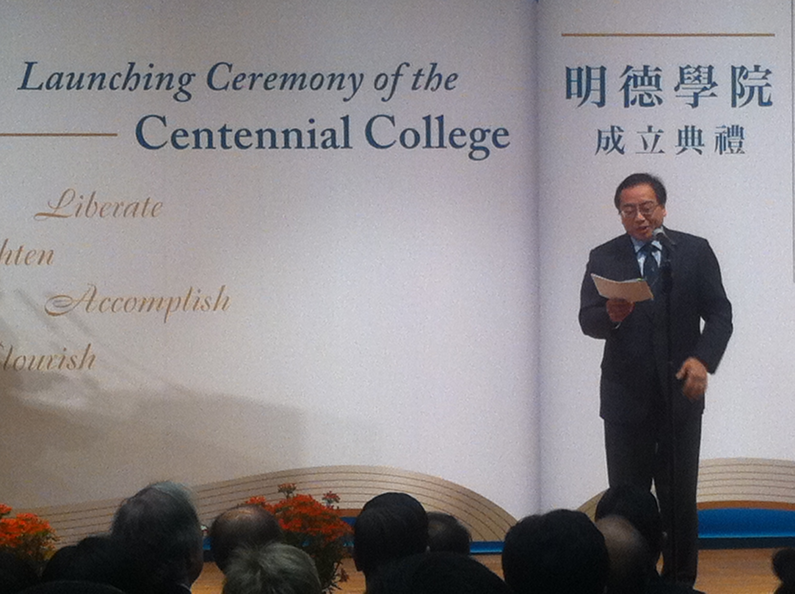 徐立之 Professor TSUI Lap-chee, Contennial College launching ceremony at the Huang Rayson Theatre, HKU